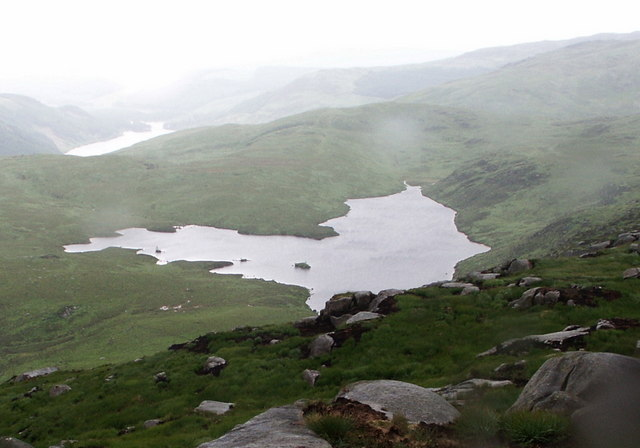 Long Loch of Glenhead near Clints of the Buss, Galloway Hills More a lochan than a loch, being not (in fact) very long at all, but so called to distinguish it from its neighbour to the east - the Round Loch of Glenhead.